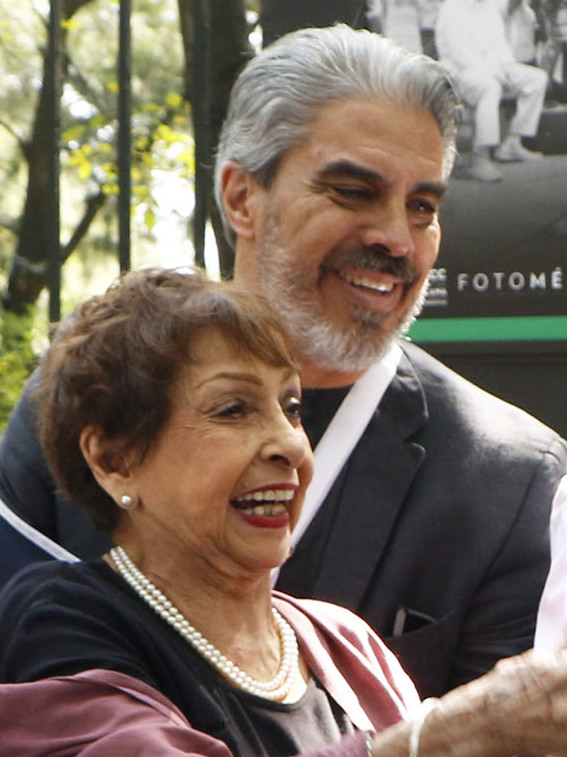 Lunes 25 de noviembre de 2019En la Galería Abierta de Rejas de Chapultepec, se inauguró la exposición fotográfica Héroes Anónimos, Técnicos y Artistas del Cine Mexicano, con la participación de José Manuel Rodríguez, director de Galerías Abiertas; Mónica Lozano, presidenta de la Academia Mexicana de Ciencias Cinematográficas;Eliza Lozano, curadora de la exposición; Alejandro Vázquez, especialista en Efectos Especiales y demás invitados.Fotografía: Tania Victoria/ Secretaría de Cultura de la Ciudad de México.